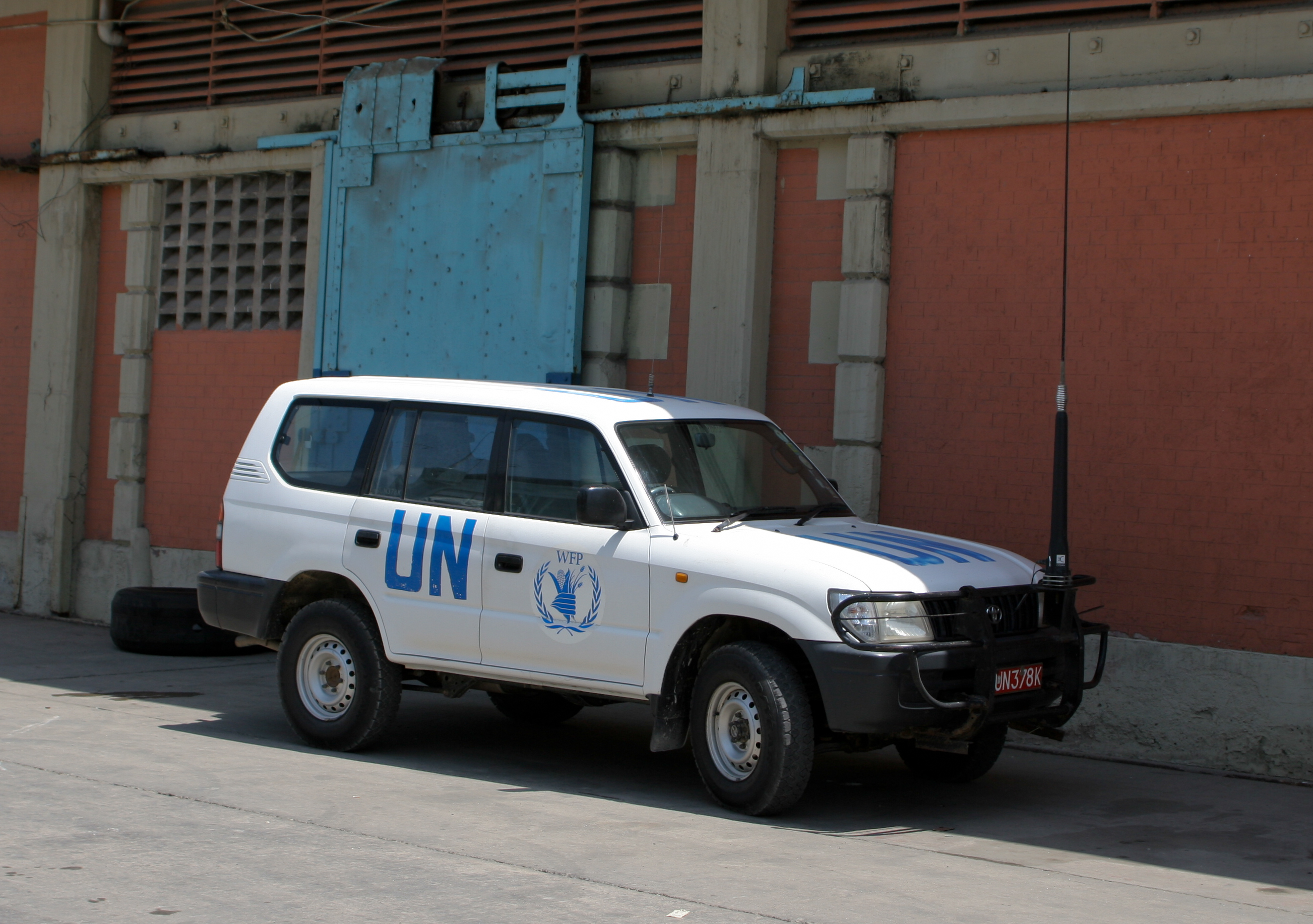 UN World Food Program Landcruiser in the port of Mombassa, Kenya.